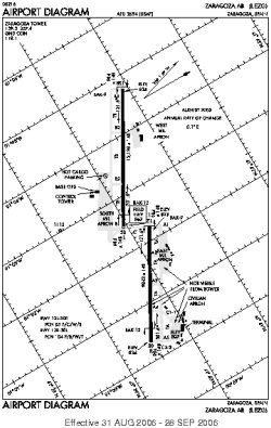 Diagram of Zaragoza Airport (ZAZ) in Spain. Effective 31 AUG 2006 - 26 SEP 2006.